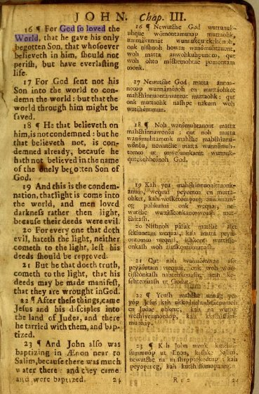 Algonquin training Bible - John 3_16